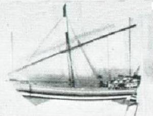 Model of an ancient Mogadishan ship, Somalia Museum